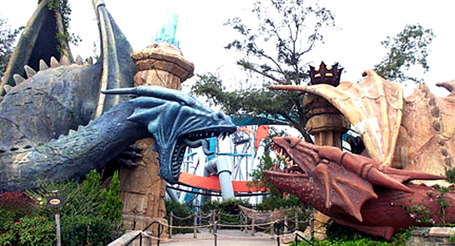 Dueling Dragons ride entrance, now demolished since October 2008.